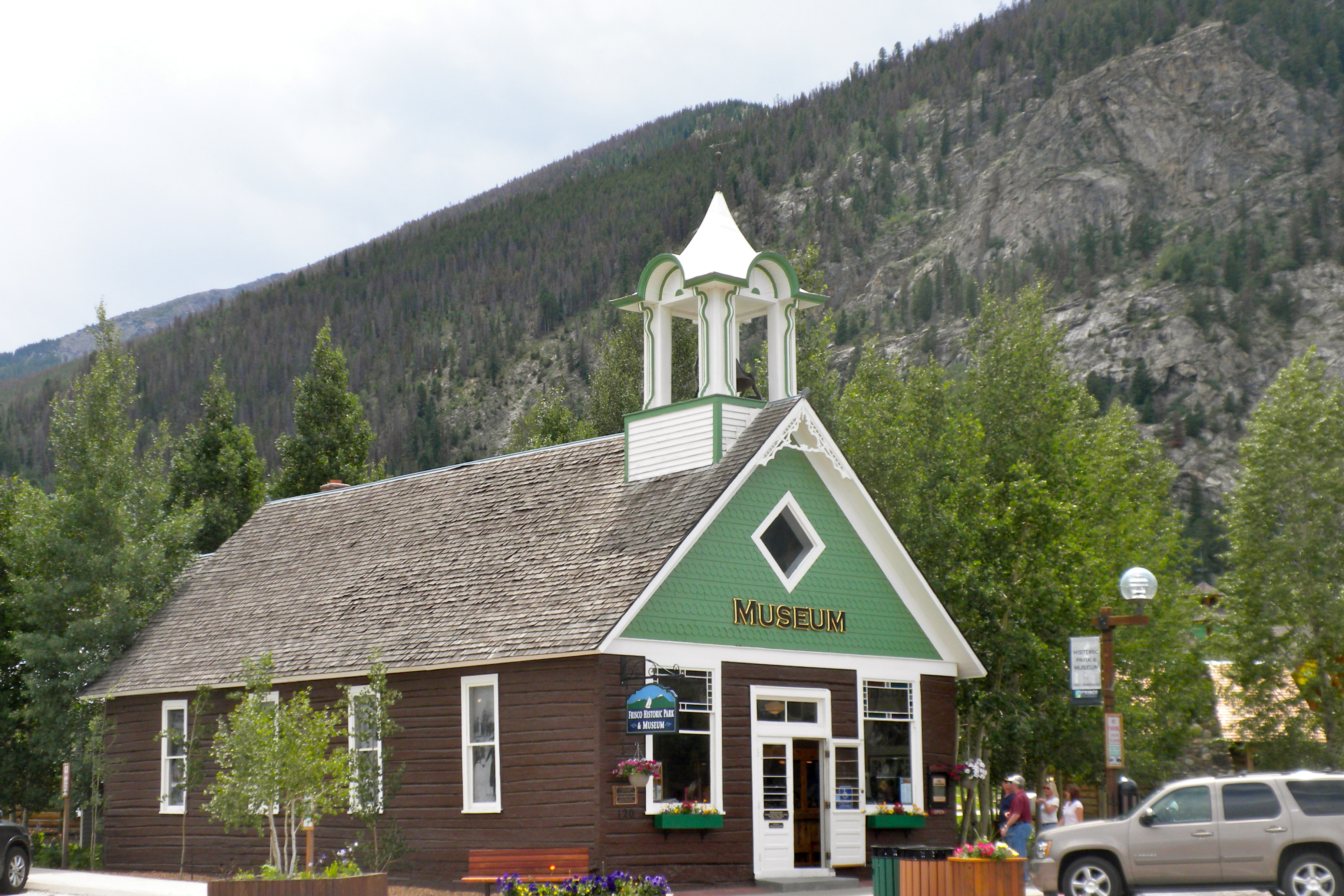 Frisco Schoolhouse on the NRHP since September 15, 1983. At 120 Main St., Frisco, Summit county, Colorado. This is now a museum (it had formerly been a saloon then a schoolhouse) and is the major attraction of a "historic park" in the town. The park has many buildings removed from the way of a dam in the area, with the schoolhouse being the only building not moved from its original site.